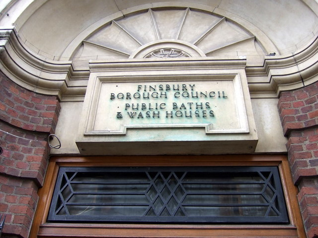 Ironmonger Row Baths, original signing From 1931. Baths now run by Islington council.